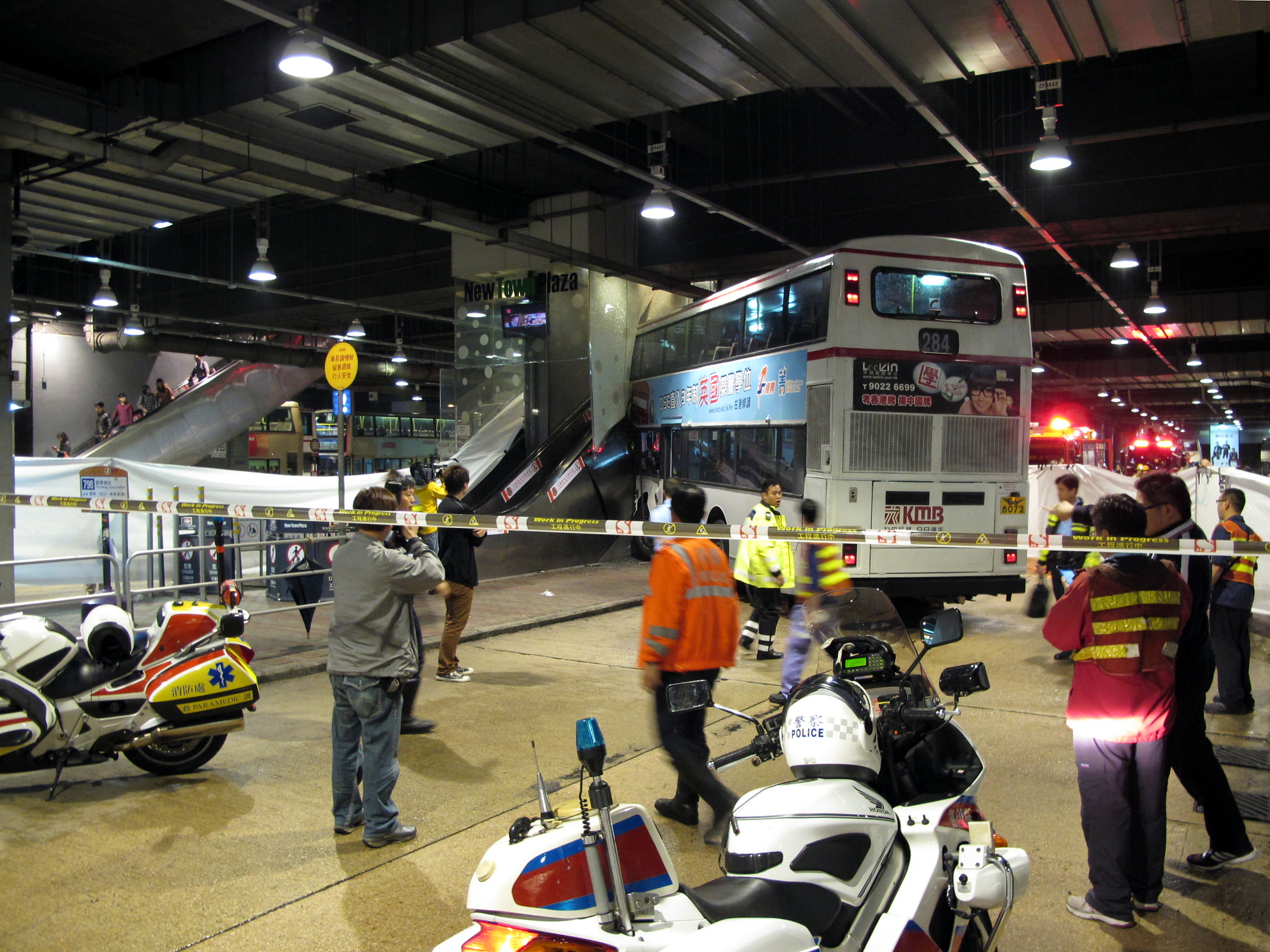 New Town Plaza Accident